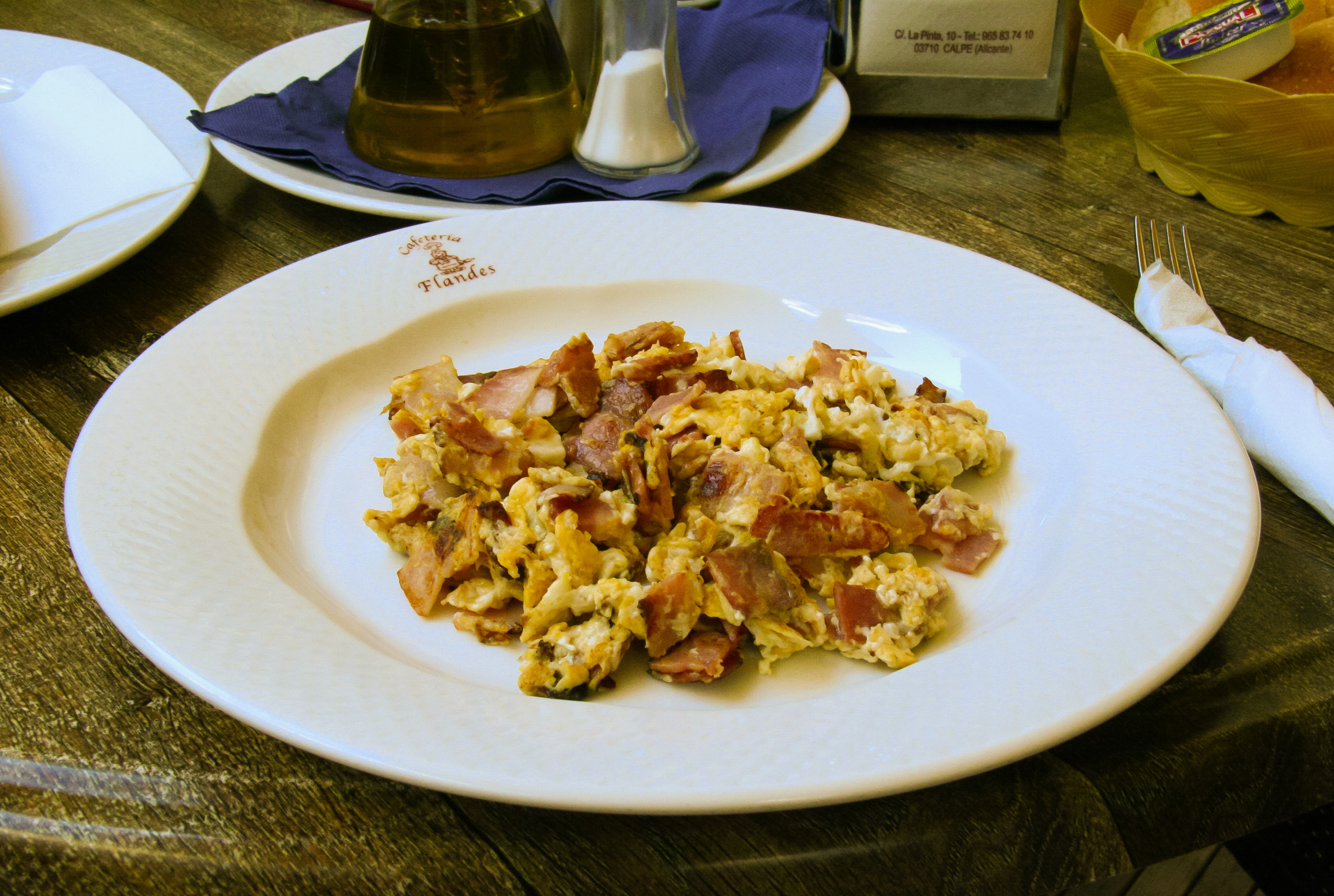 Scrambled eggs in bacon